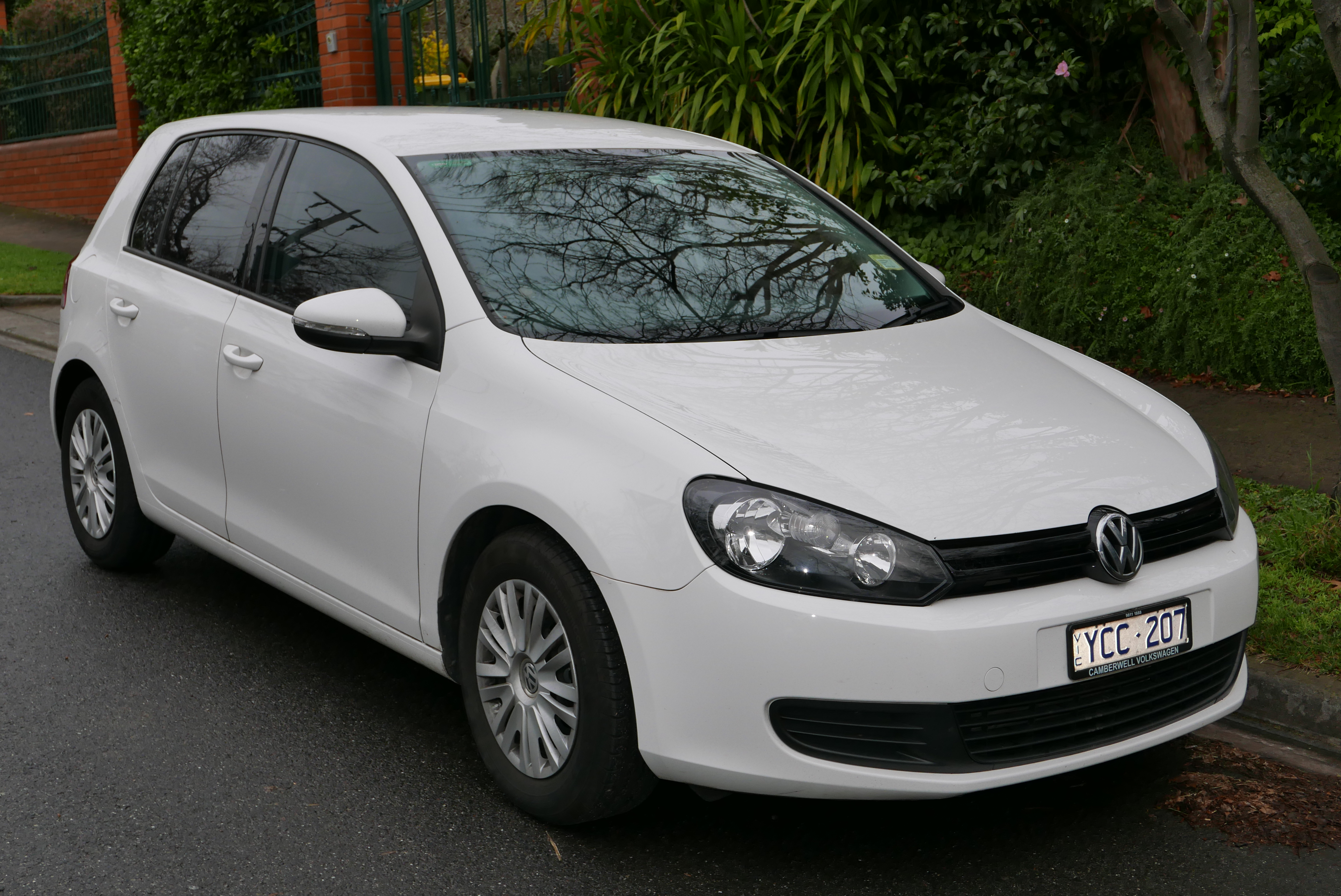 2010 Volkswagen Golf (5K MY11) 77TSI 5-door hatchback. Photographed in Ivanhoe, Victoria, Australia. Vehicle registration enquiry resultsJurisdictionVictoriaRegistrationYCC207Chassis codeWVWZZZ1KZBP030189Engine codeCBZ184220Compliance date2010-10Year of manufacture2010